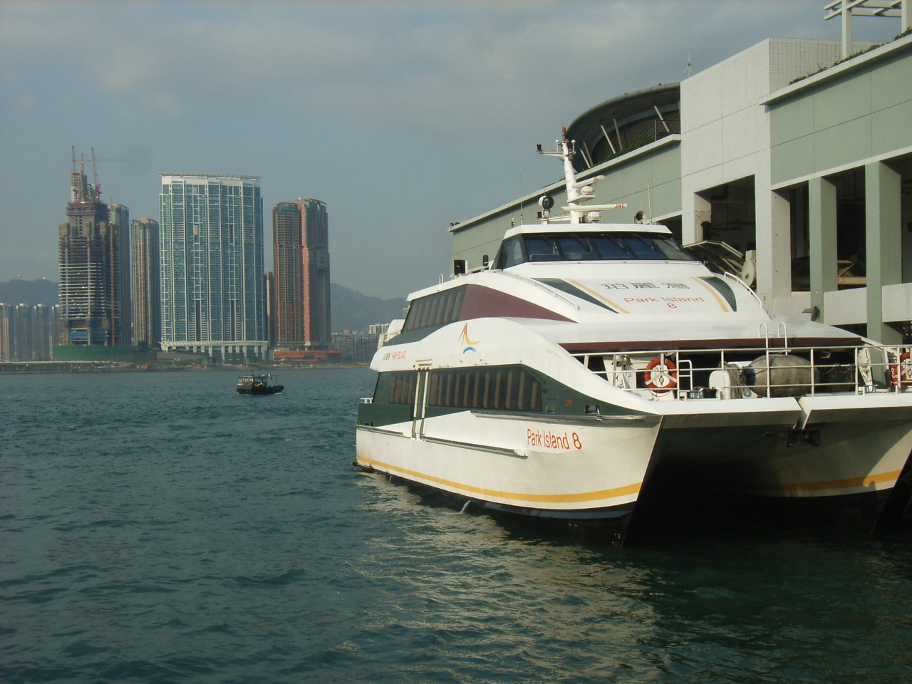 珀麗灣客運有限公司 (Park Island Transport Company Limited)，負責營辦zh:馬灣zh:珀麗灣的對外交通服務，現時共營辦兩條屋村巴士路線及兩條渡輪航線。公司由zh:載通國際及zh:港九小輪共同創立及營運，並在zh:2005年zh:12月14日成為香港上市公司載通國際的全資附屬機構。 Photo created by User:HungBEER.